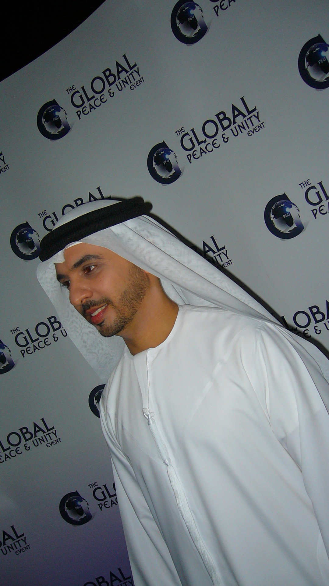 Photo for Ahmed Bukhatir page representing musical work.